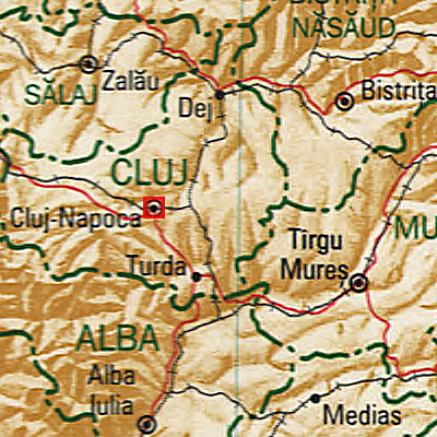 Map of Cluj-Napoca Municipality, Romania.